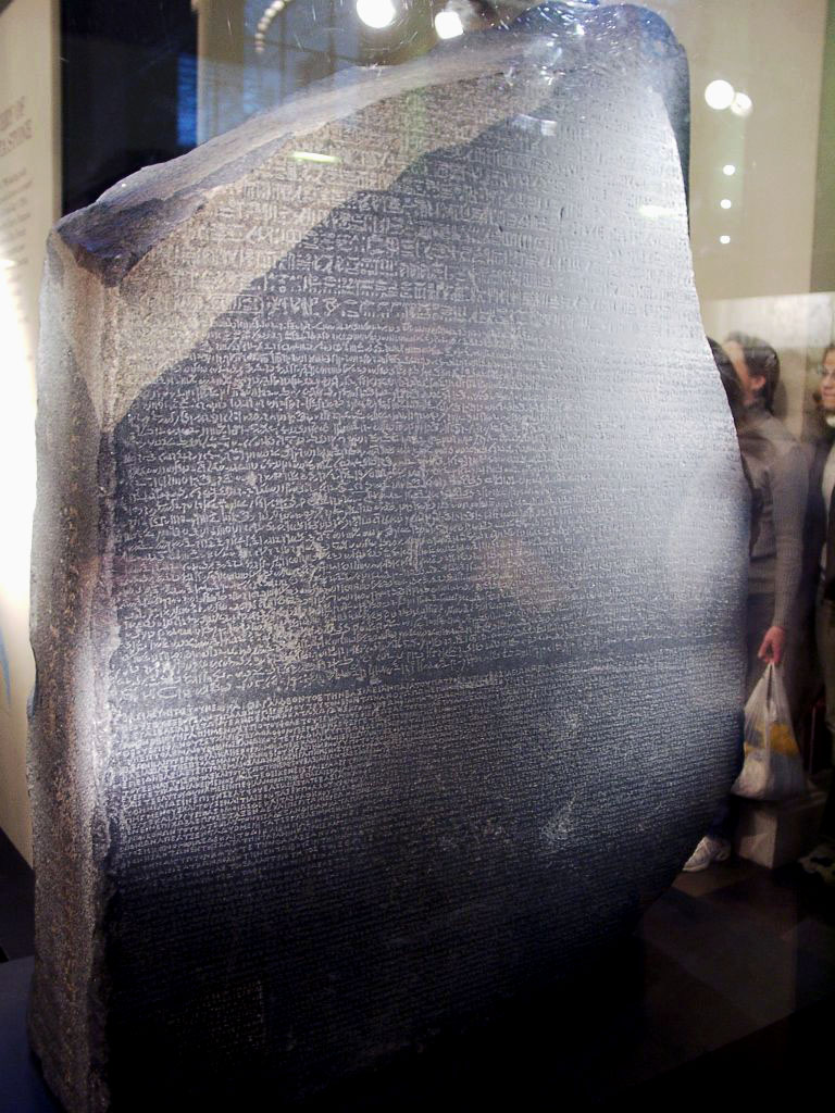 Description: The Rosetta Stone in British Museum Source: self-made Author: Matija Podhraški, December 2003